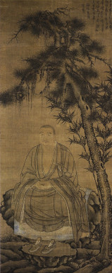 Portrait of the Monk Zhongfeng Mingben, 14th century Yuan dynasty (1271–1368) China Hanging scroll; ink and light color on silk; Image: 48 5/8 x 20 3/16 in. (123.5 x 51.3 cm)